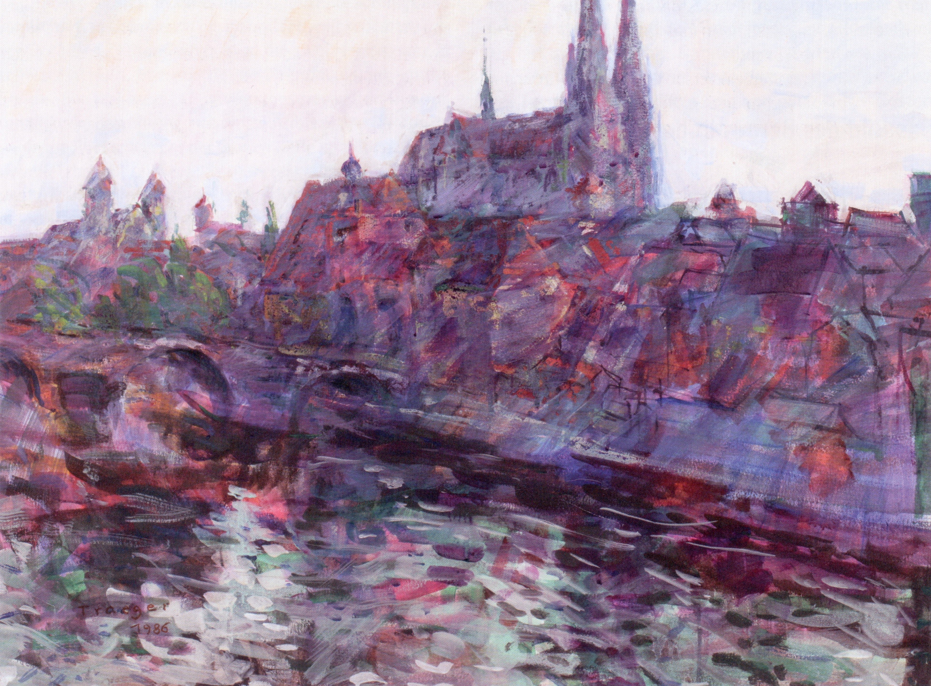 Oil painting by Jörg Traeger, 1986